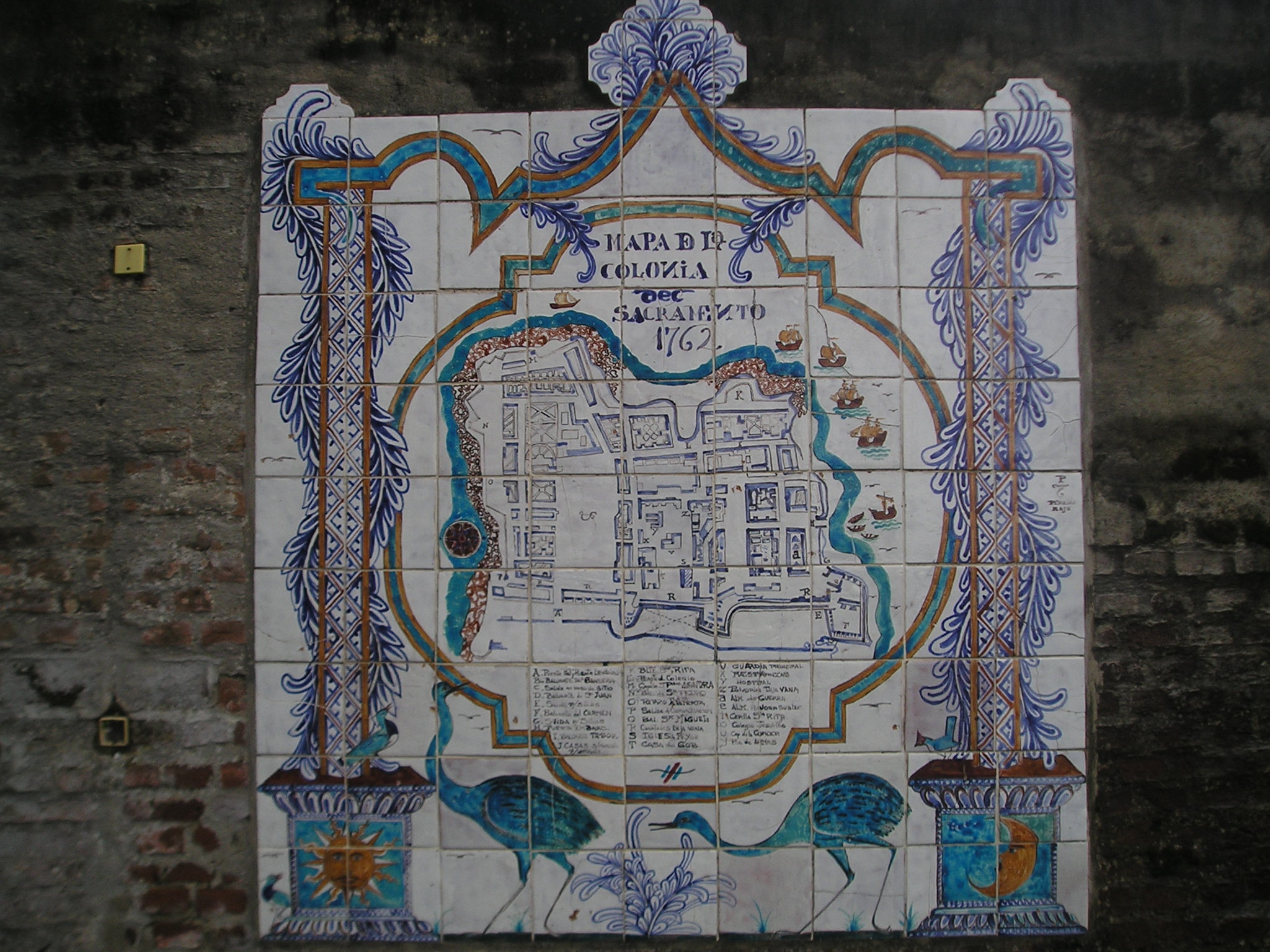 Map of Colonia del Sacramento (now in Uruguay) from 1762. These azulejo tiles are displayed at the wall of Museo del Azulejo